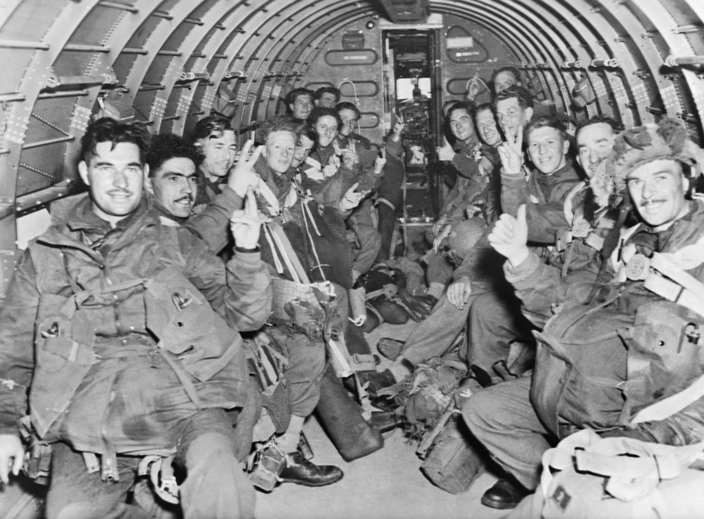 British Paratroops of 1st (British) Airborne Division give the 'V'-sign and "thumbs up" inside one of the C-47 transport aircraft.